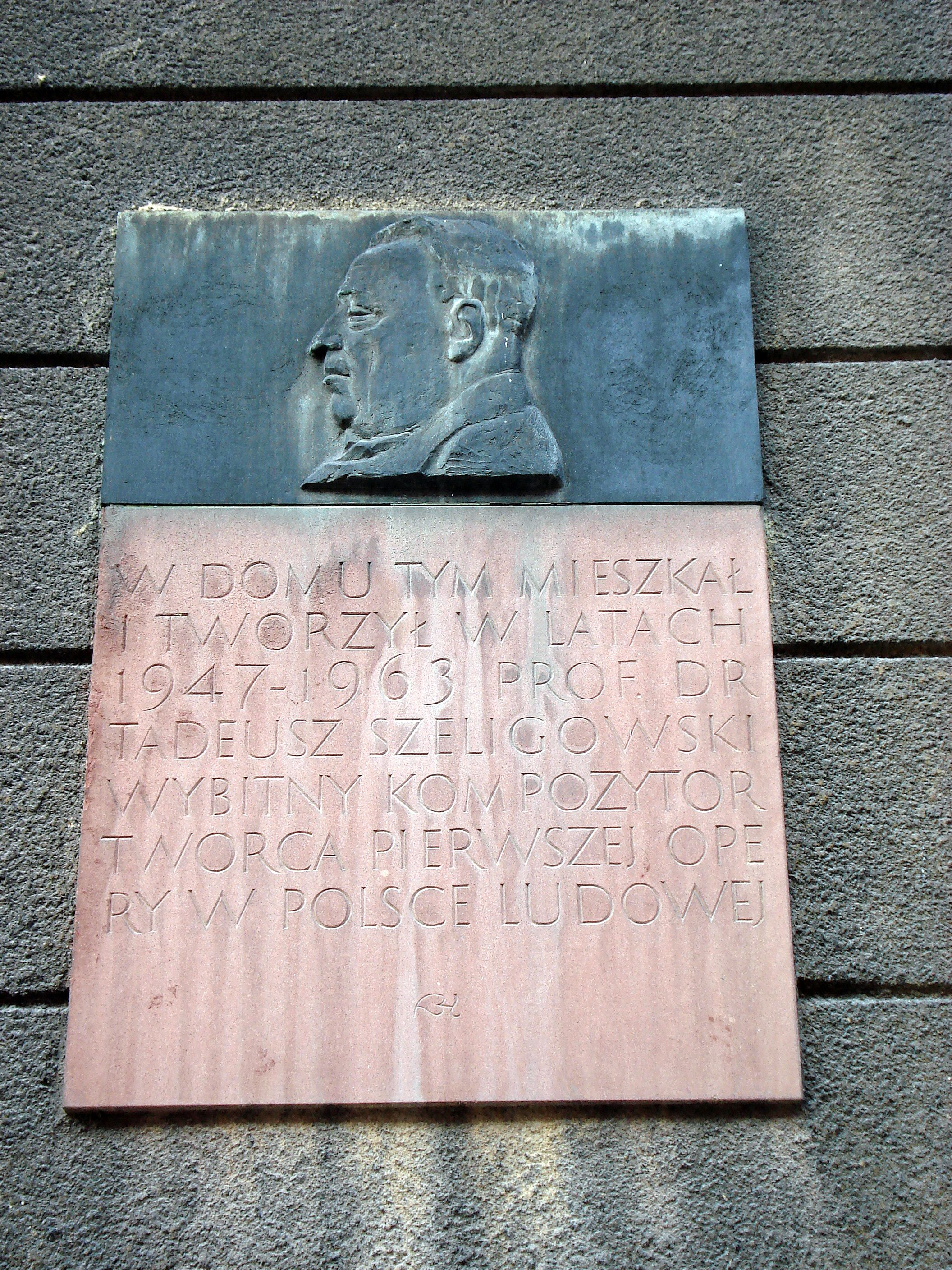 The memorial desk of Polish composer Tadeusz Szeligowski in Poznań, by Józef Kopczyński, 1966